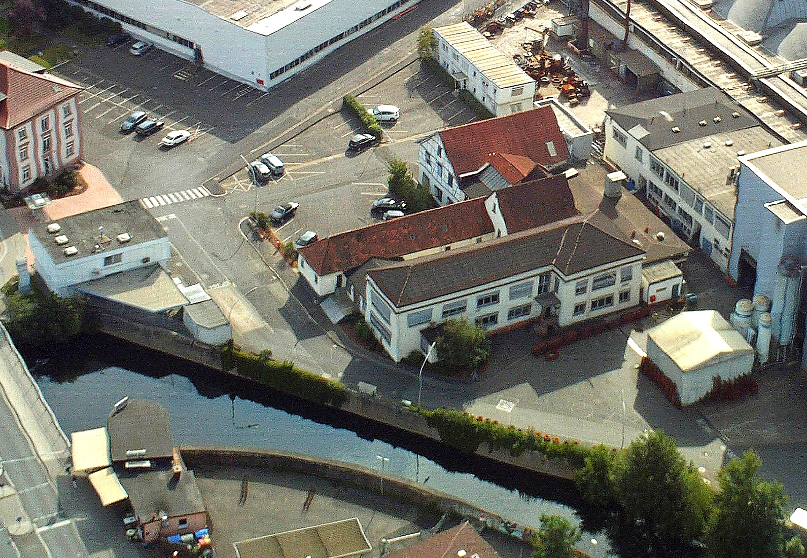 Die ehemalige Spiegelmanufaktur in Lohr am Main